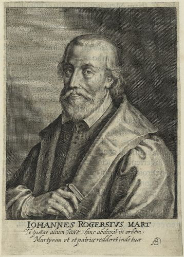 Engraving of John Rogers (c. 1500 - 1555), possibly by Willem van de Passe